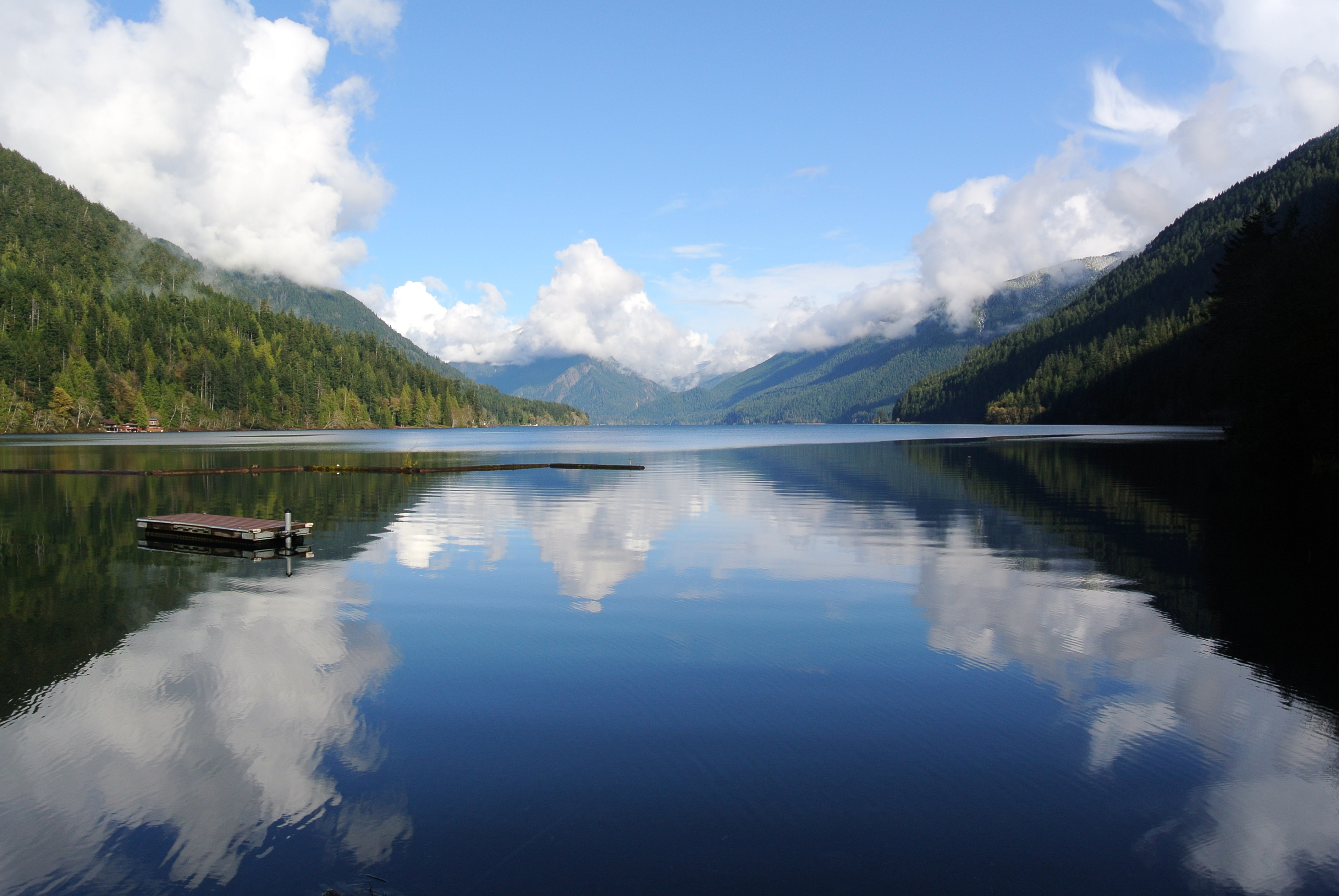 Lake Crescent in spring, Olympic National Park. Nikon 1 V1 + 1 Nikkor VR 10-30mm f/3.5-5.6